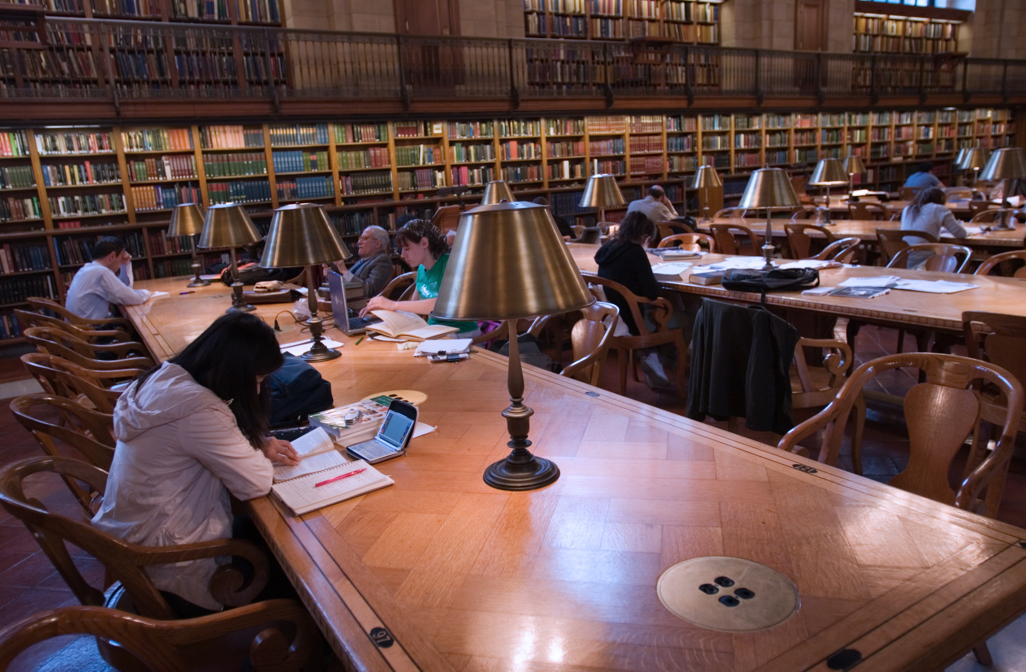 New York City Library. New York 2005